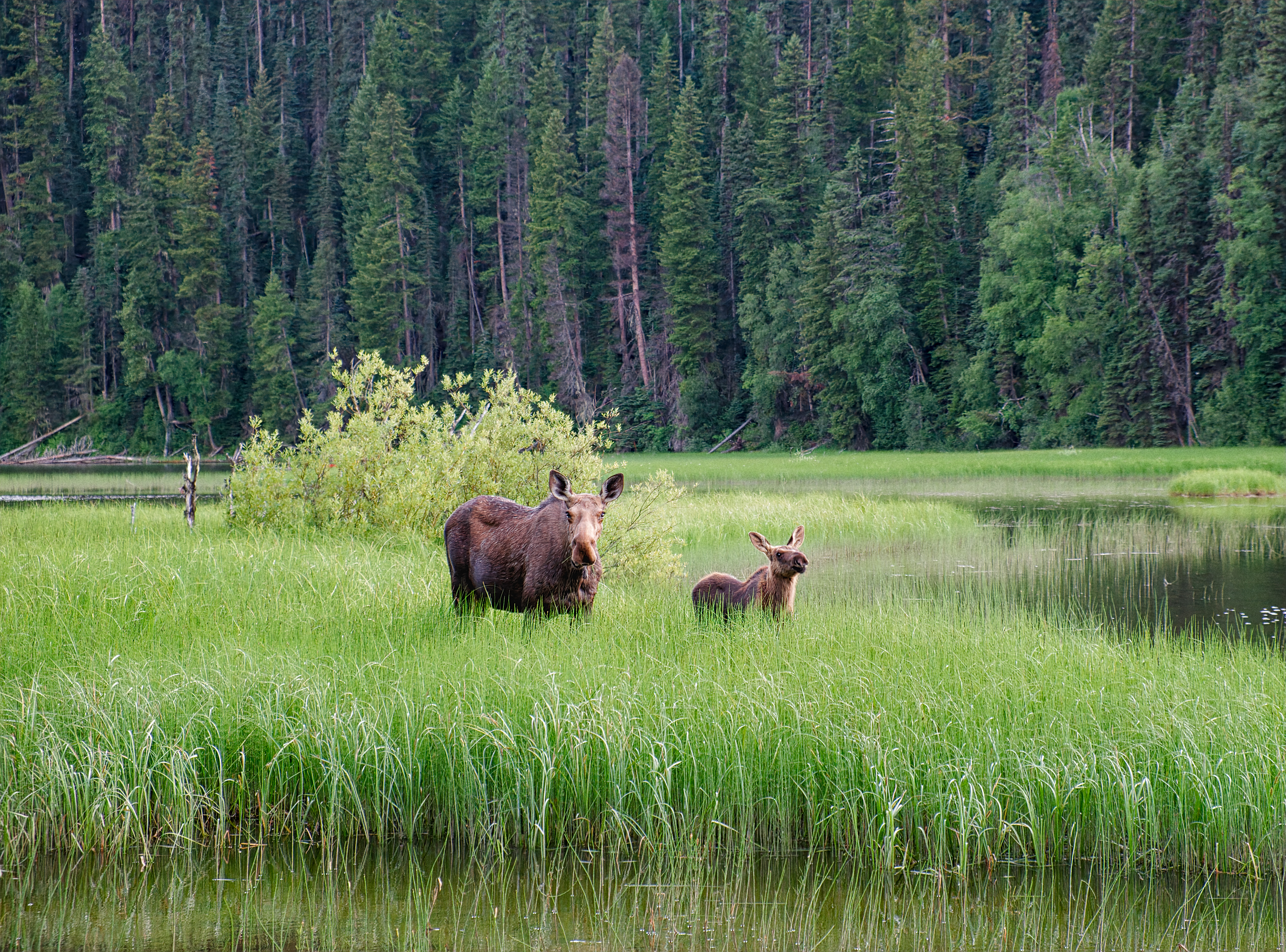 Alces alces andersoni (Western moose) cow and calf feeding in the Bowron River East of campsite 54 at Bowron Lake Provincial Park, BC